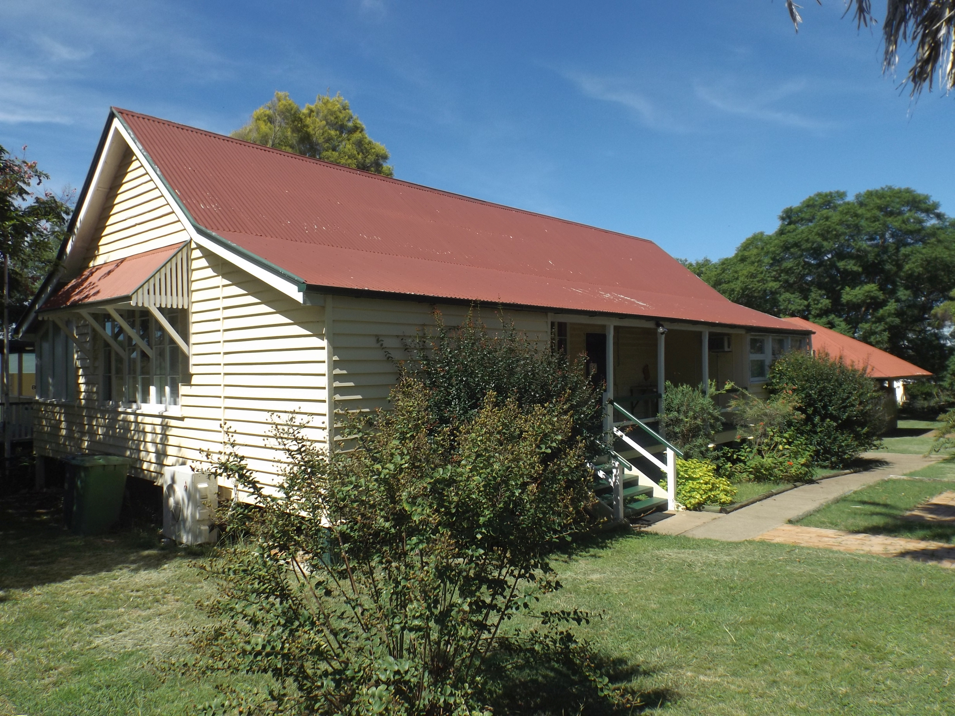 Photo of Mutdapilly State School building at Mutdapilly, Scenic Rim Region, Queensland, Australia.